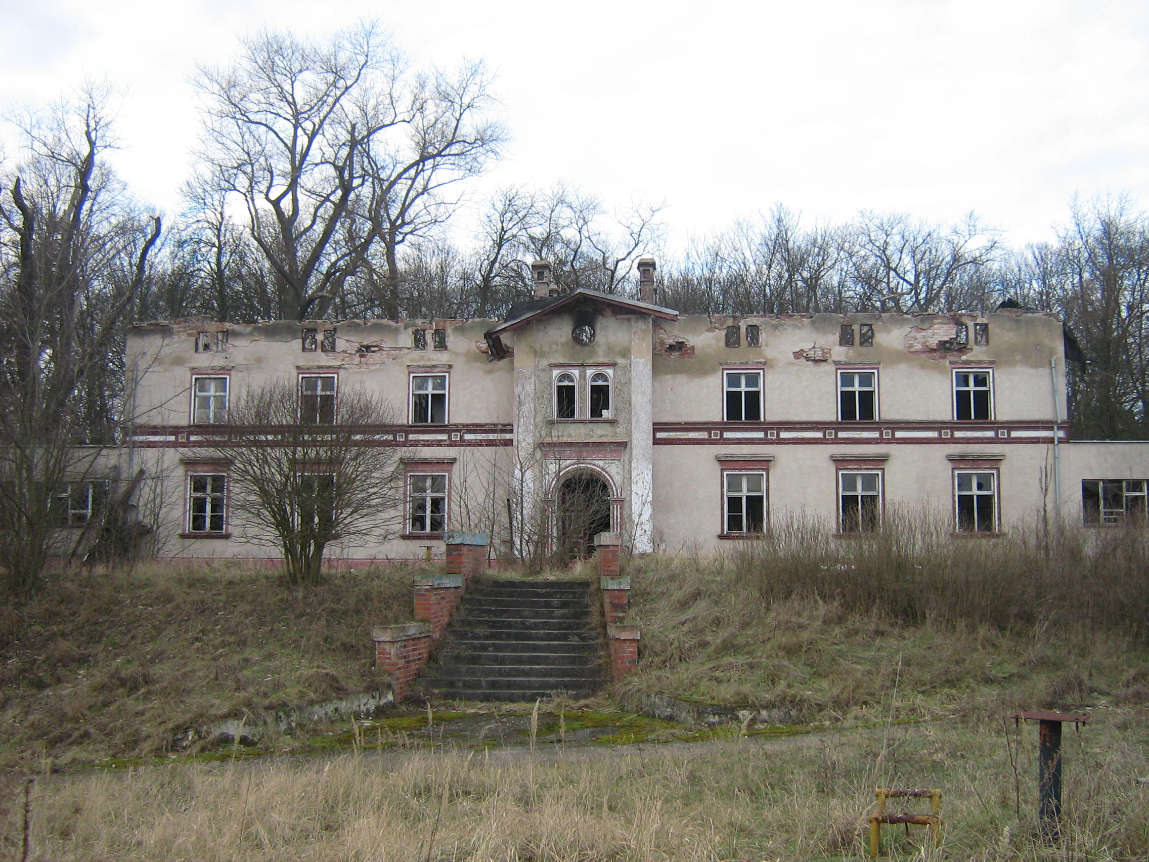 Johannes Quistorp's "Workers' Education Institute", built in the 1860s